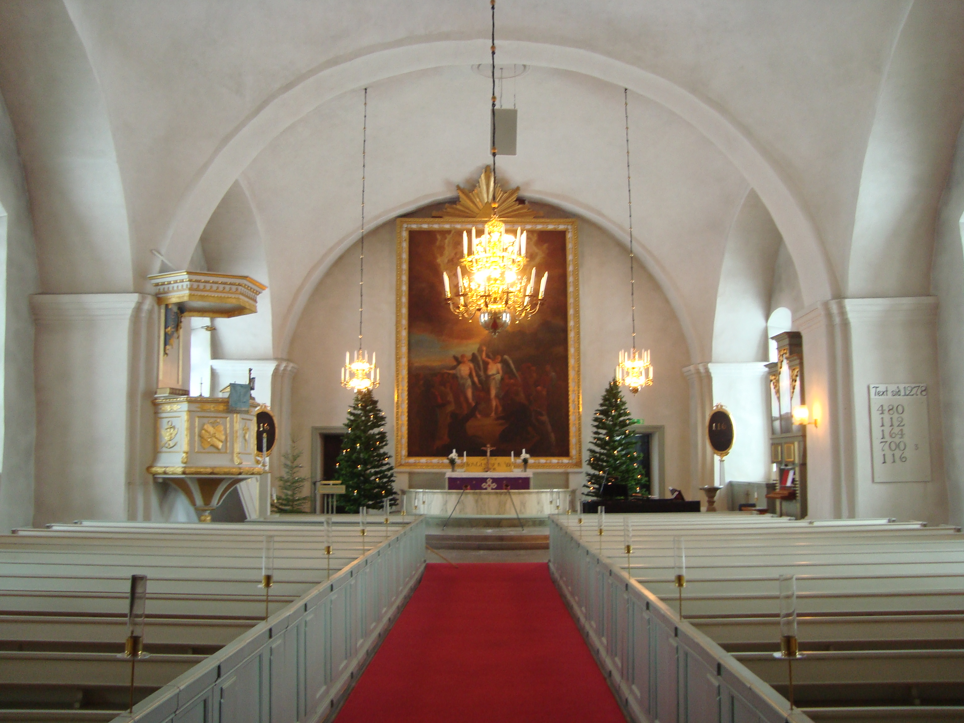 Gustafs' church, Säter Municipality, Sweden